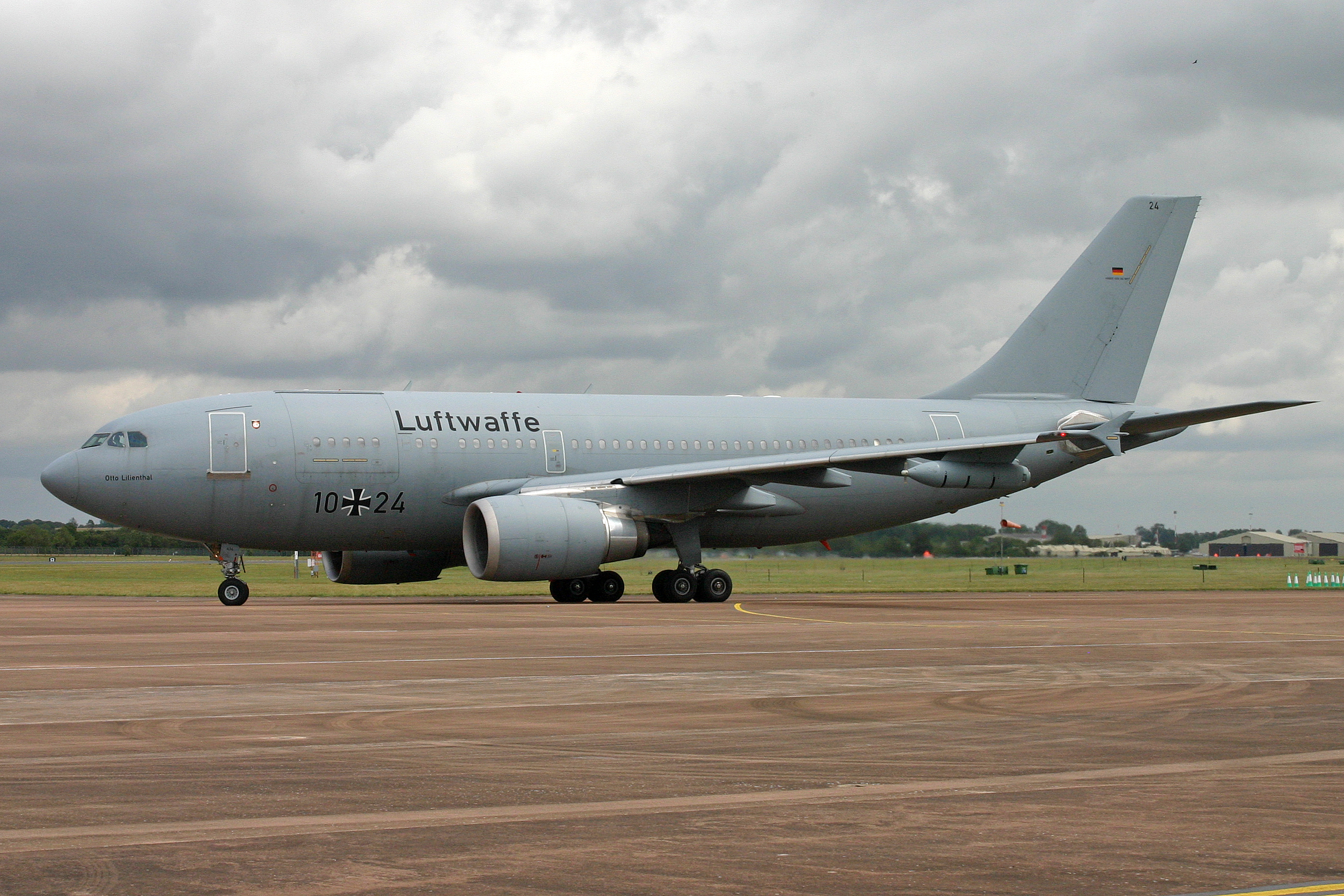 From Luftwaffe FBS BMVg. Previously with Lufthansa as D-AIDA. msn 434. Taxiing out for departure. RIAT Fairford. 18-7-2011